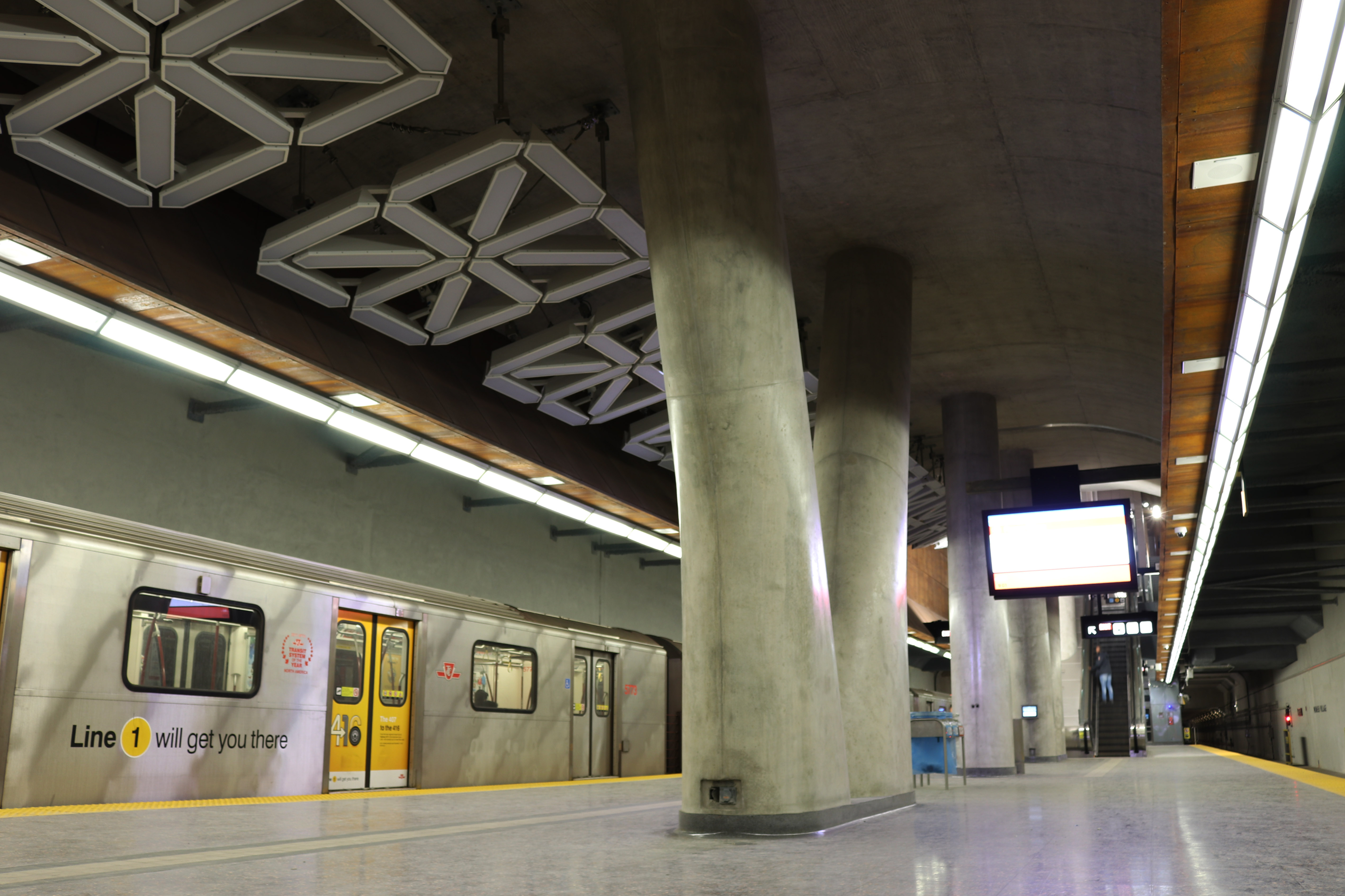 Pioneer Village station platform after opening